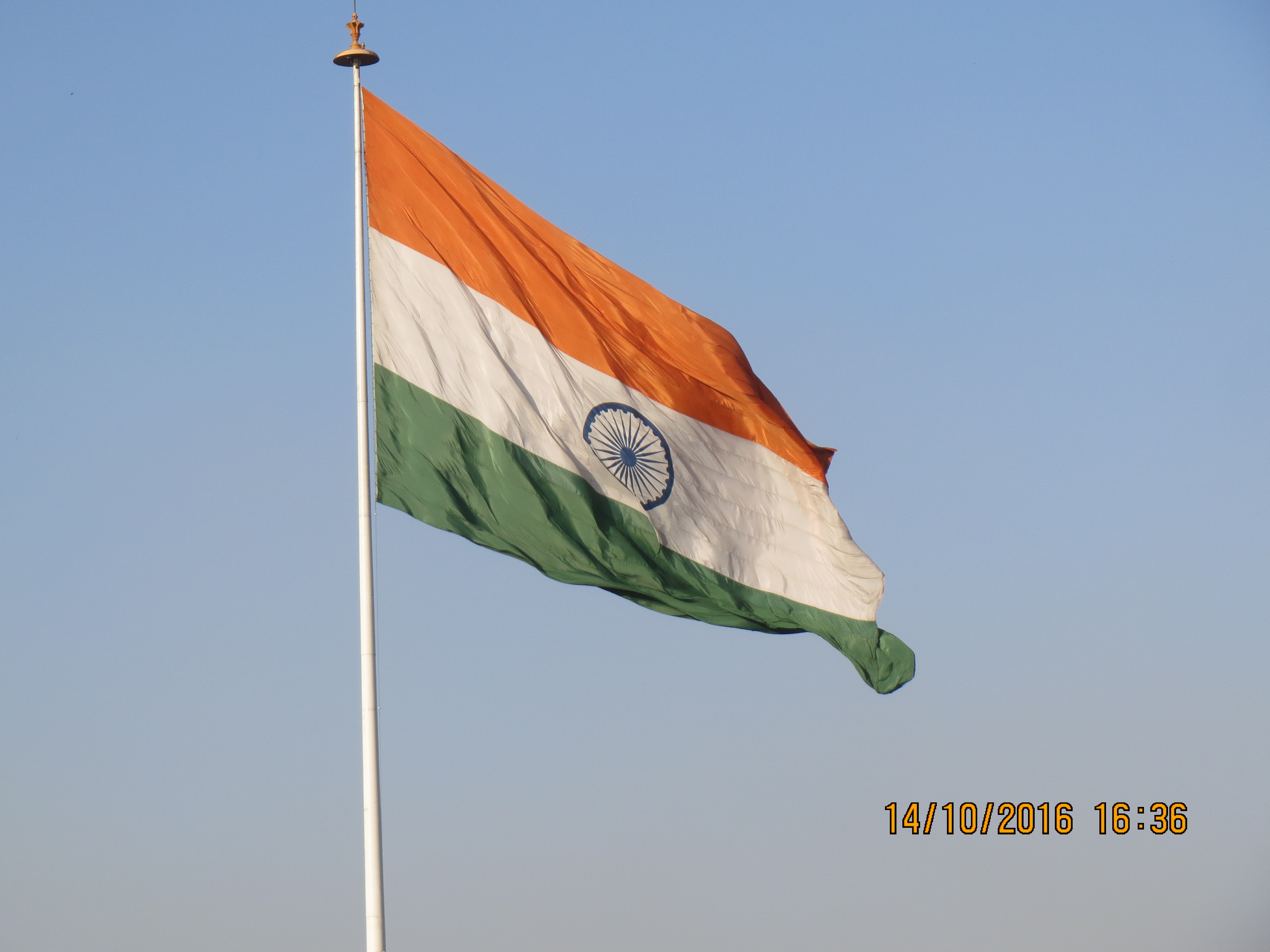 This image features the Indian National Flag,near Palika Bazar,Delhi.